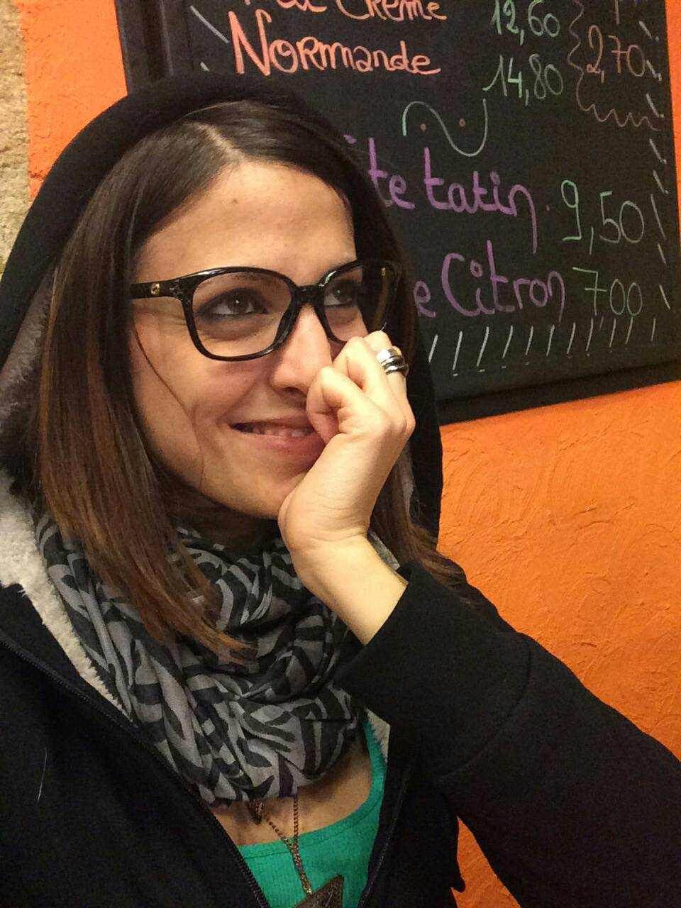 Italian comic artist Sara Pichelli.